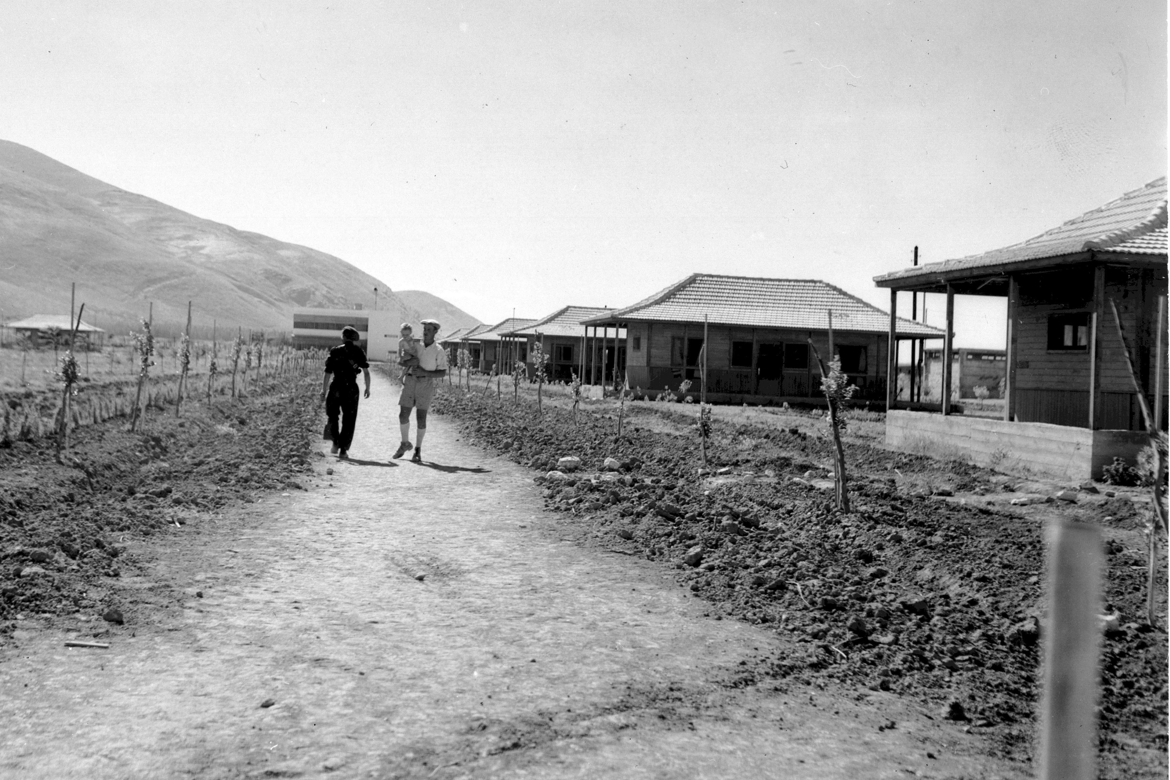 HOUSES AT KIBBUTZ TEL AMAL (NIR DAVID). בתי מגורים בקיבוץ תל עמל (ניר דוד) בעמק בית שאן.